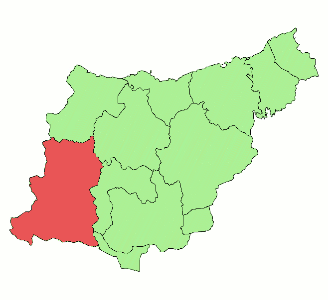 Debagoiena region in the province of Gipuzkoa